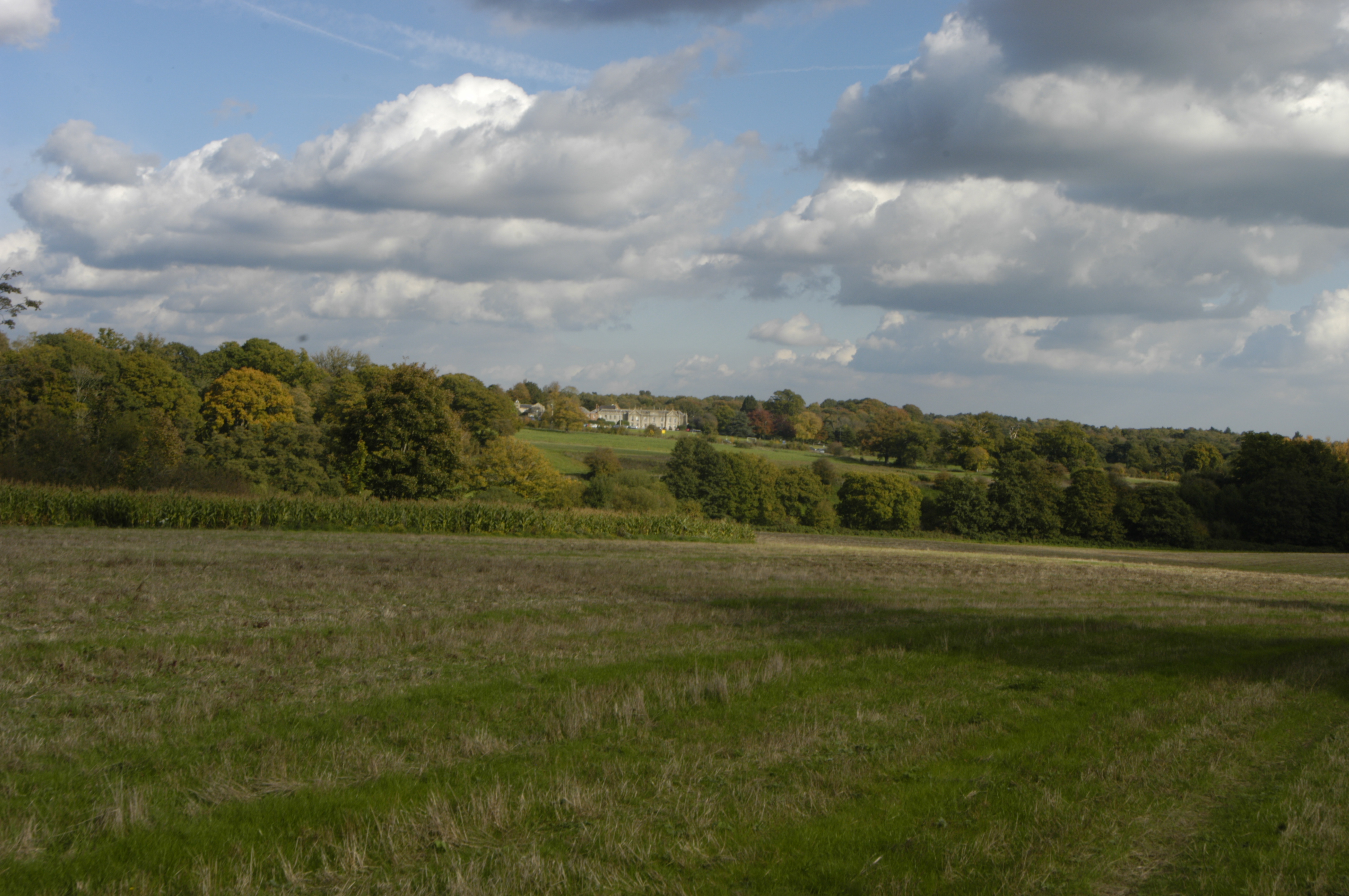 Photo (by me, R. de Salis, Rodolph (talk) 23:47, 20 October 2015 (UTC)) of Sandleford Priory from the west, as seen between Dirty Ground Copse and Gorse Covert, October 2015.